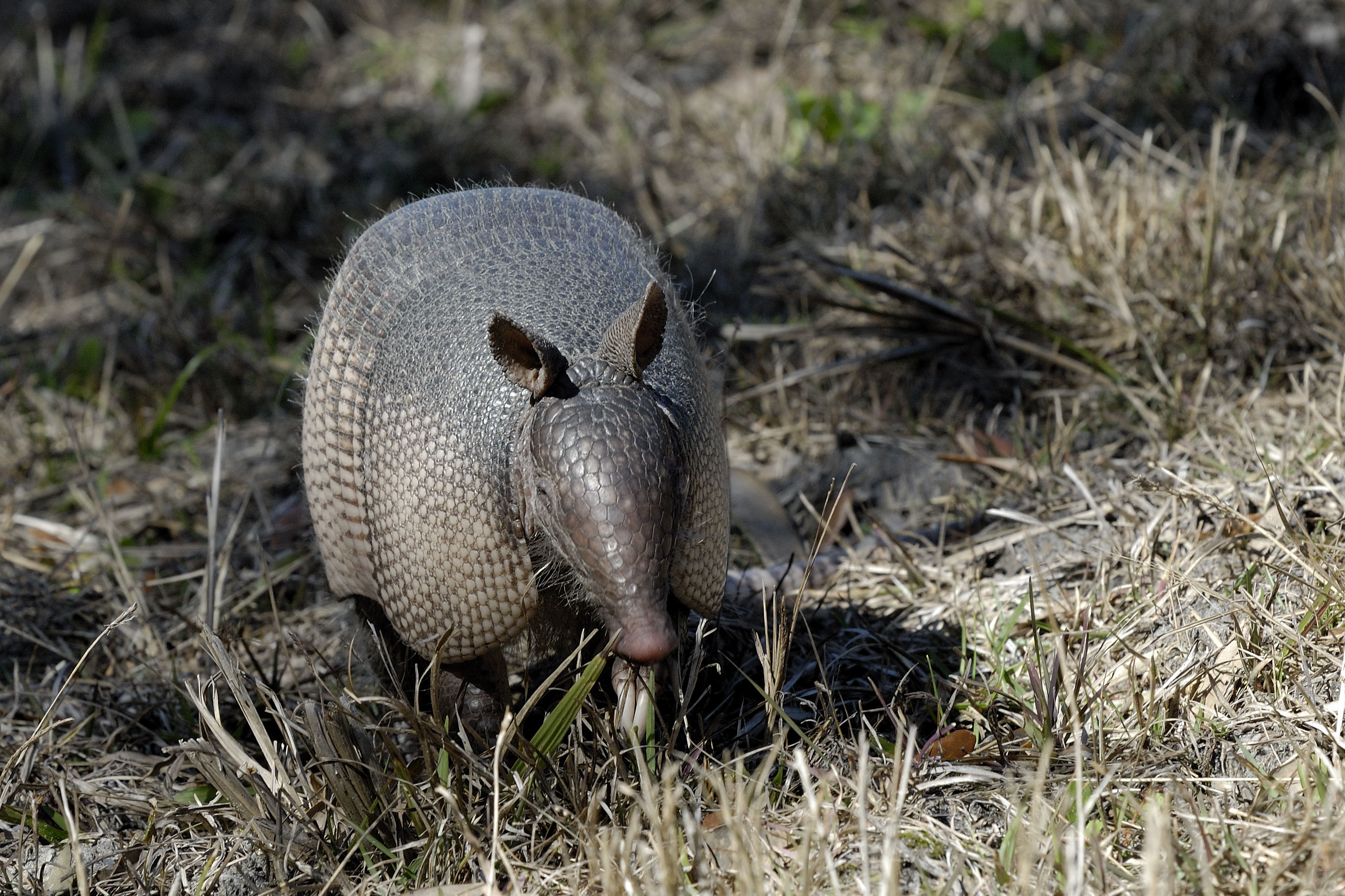 Nine-Banded Armadillo (Dasypus novemcinctus) Merritt Island Florida